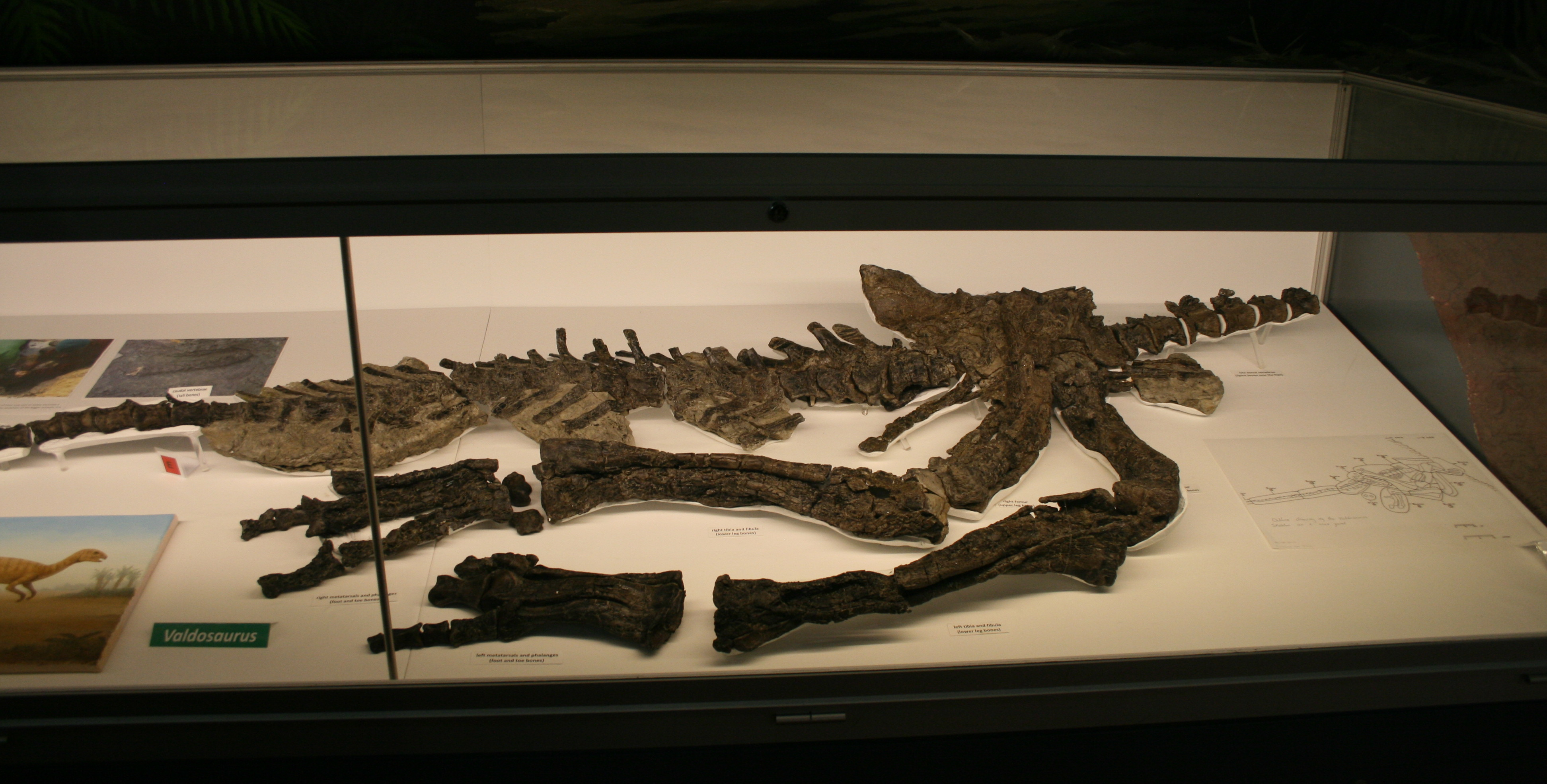 Valdosaurus well preserved specimen, dinosaur isle museum